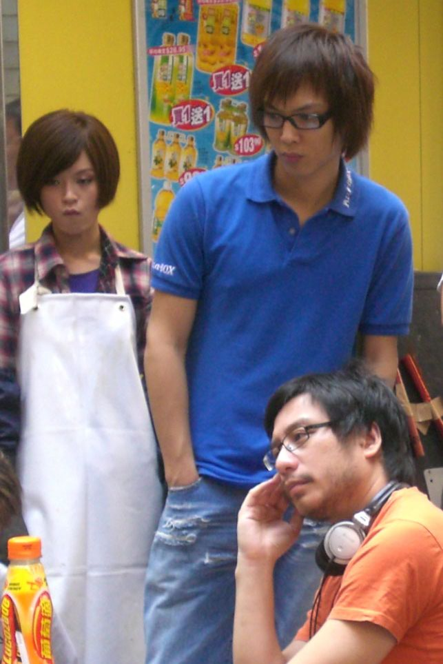 Film Production @ HK Wanchai Market Stone Nullah Lane